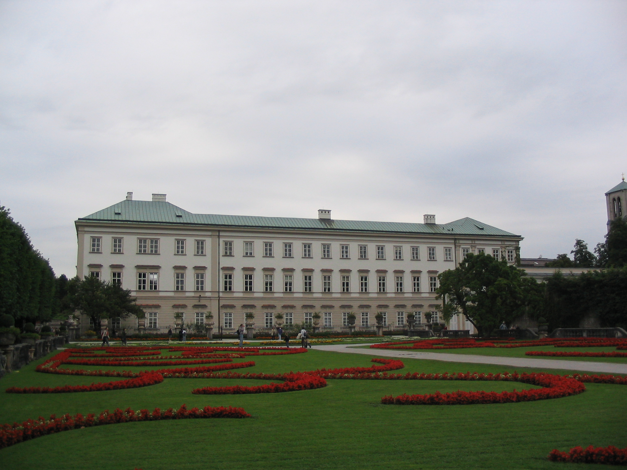 Austria, Salzburg, Mirabell Palace